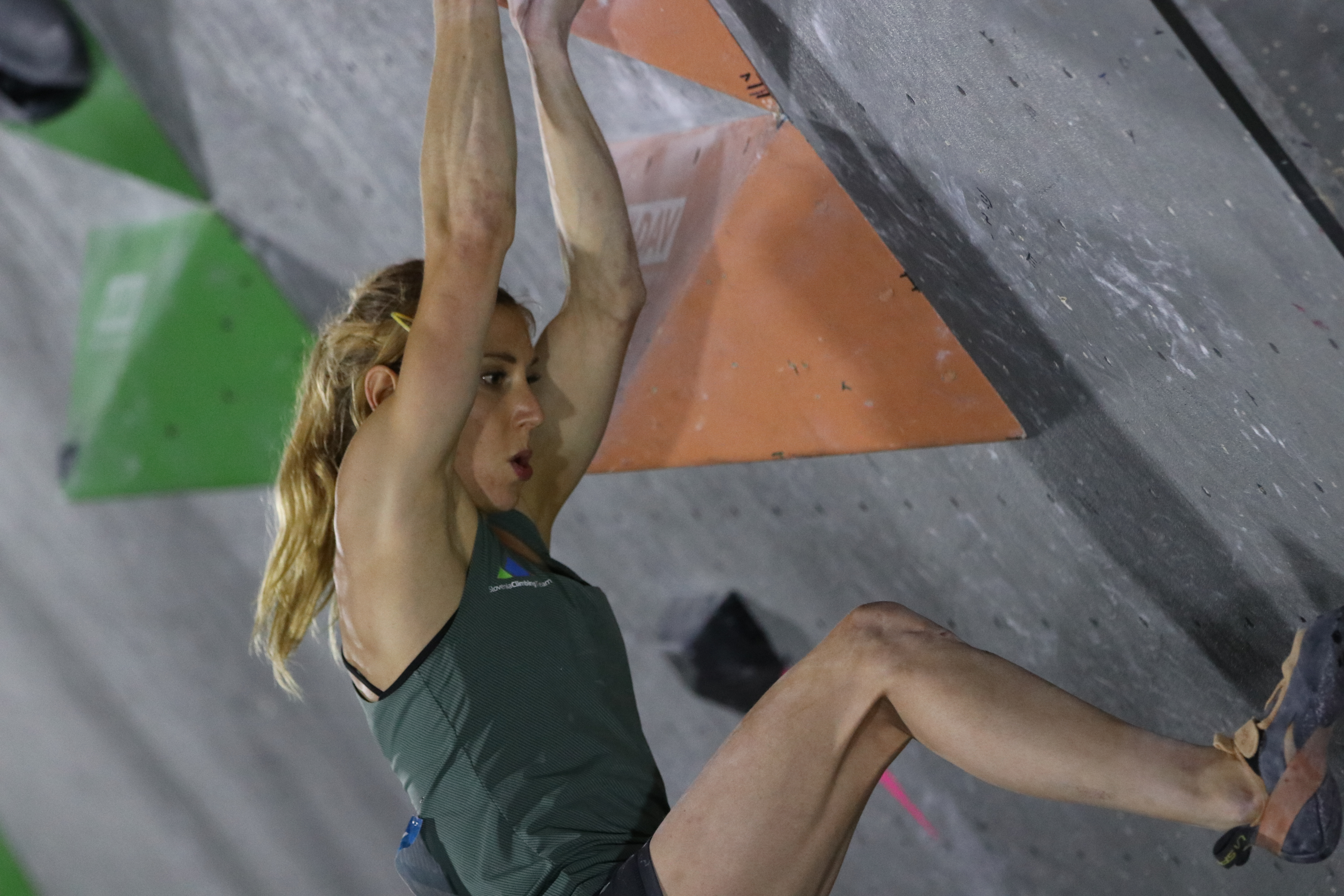 Mina Markovič SLO at the Boulder Worldcup 2017 in Munich, Germany.